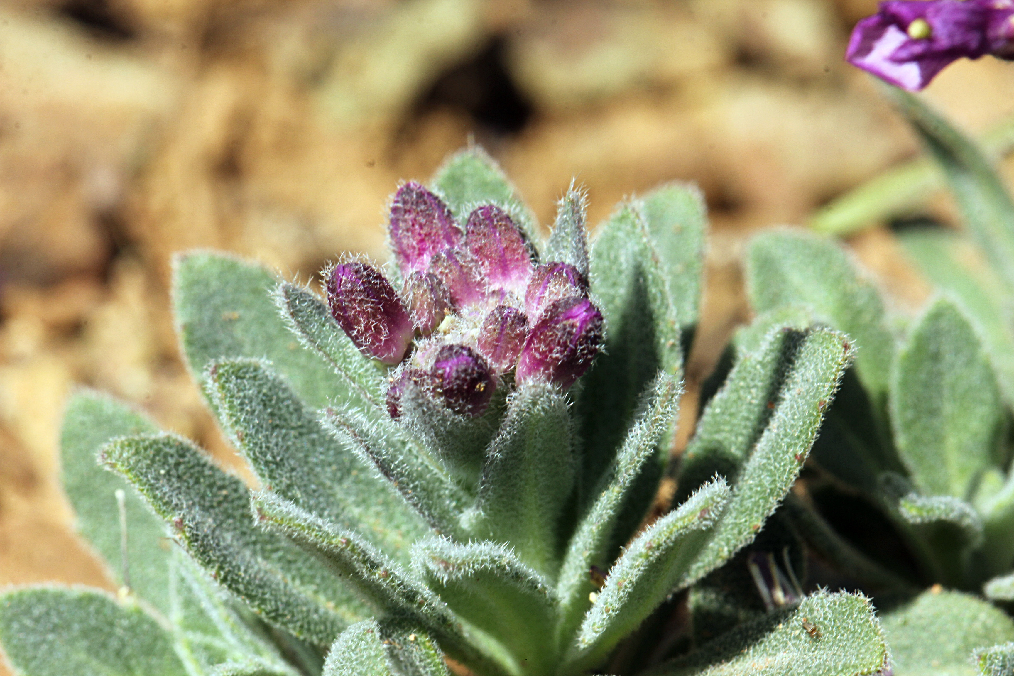 Boechera breweri from Mt. Diablo - March 2014